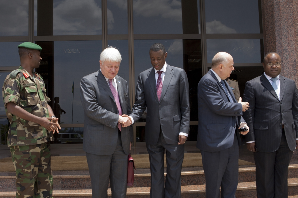 Under Secretary General for DPKO, Herve Ladsous and MONUSCO SRSG Roger Meece meet with Rwandan Defence minister, Gen. James Kabarebe, in Kigali to discuss maters over M-23 crisis in eastern DRC, the 12th of September 2012. © MONUSCO/Sylvain Liechti